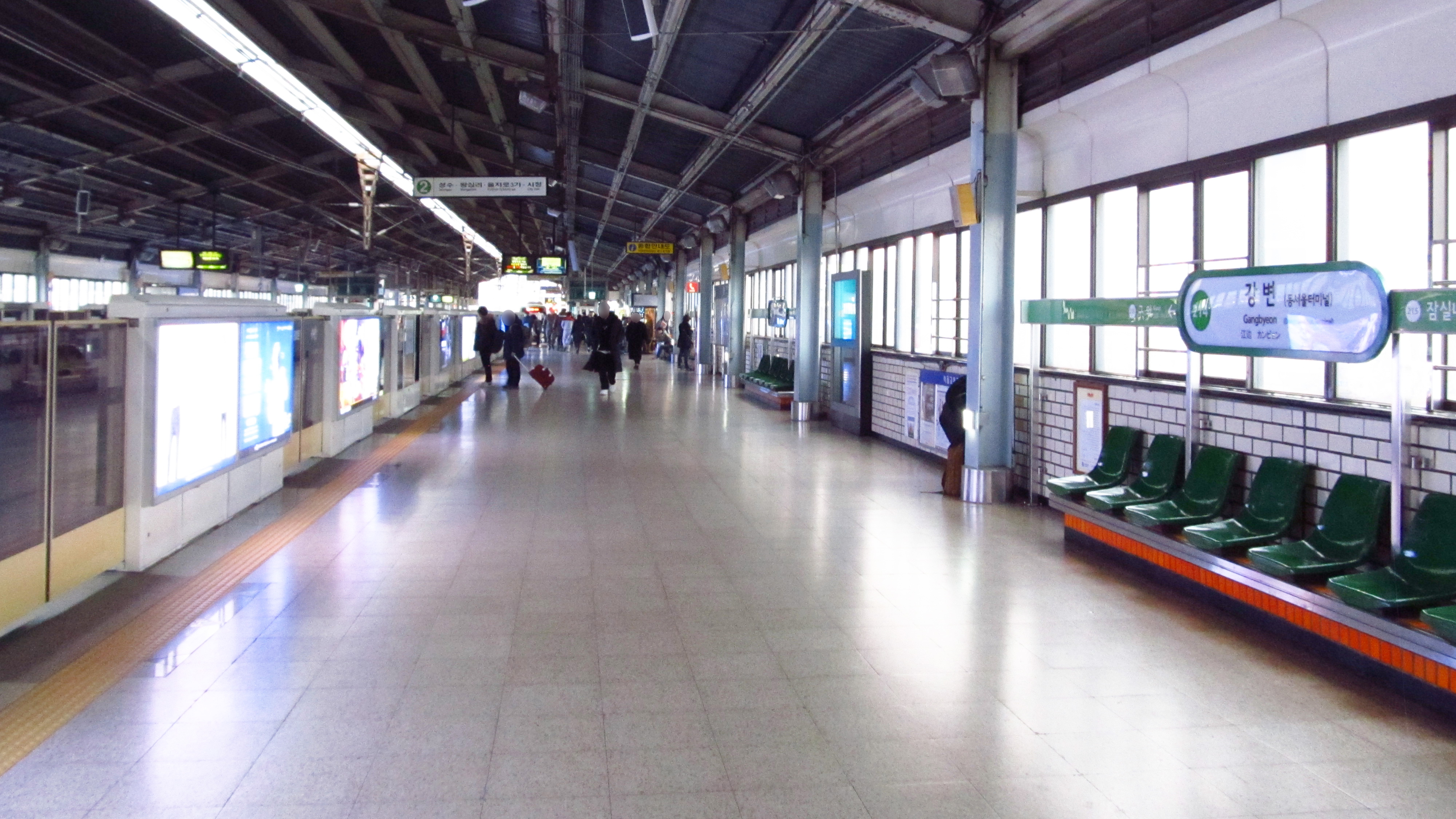 The platform at Gangbyeon Station on Seoul Subway Line 2 in Gwangjin-gu, Seoul, Republic of Korea(South Korea)